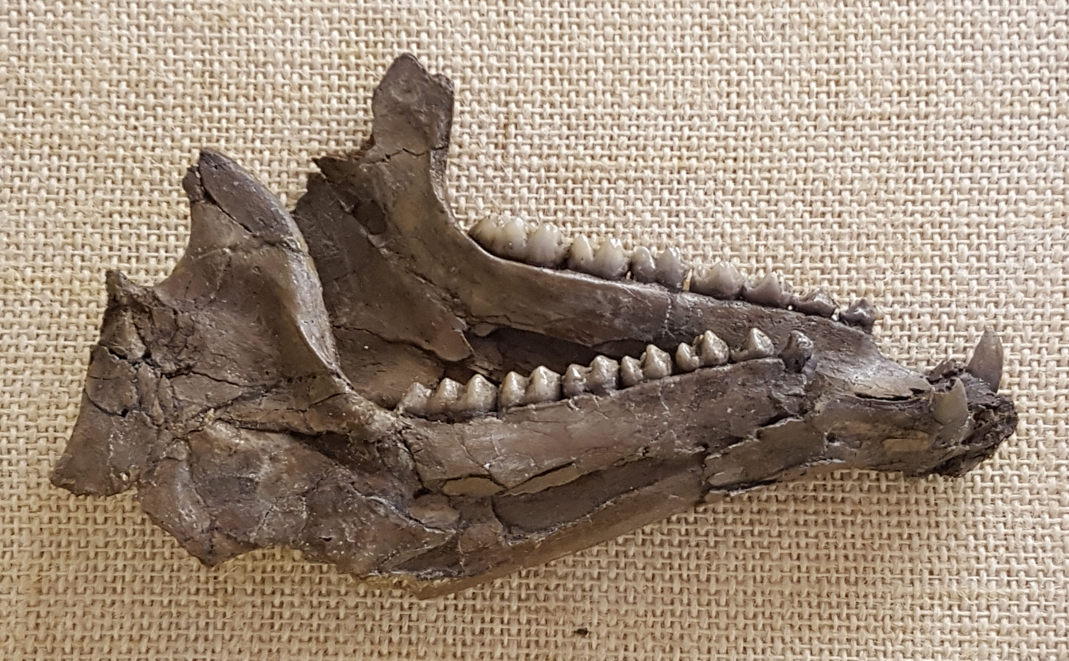 dentary of Eurohippus parvulus from the Geiseltal, Germany, Middle Eocene; took the picture in the Geiseltalmuseum, Halle (Saxony-Anhalt)